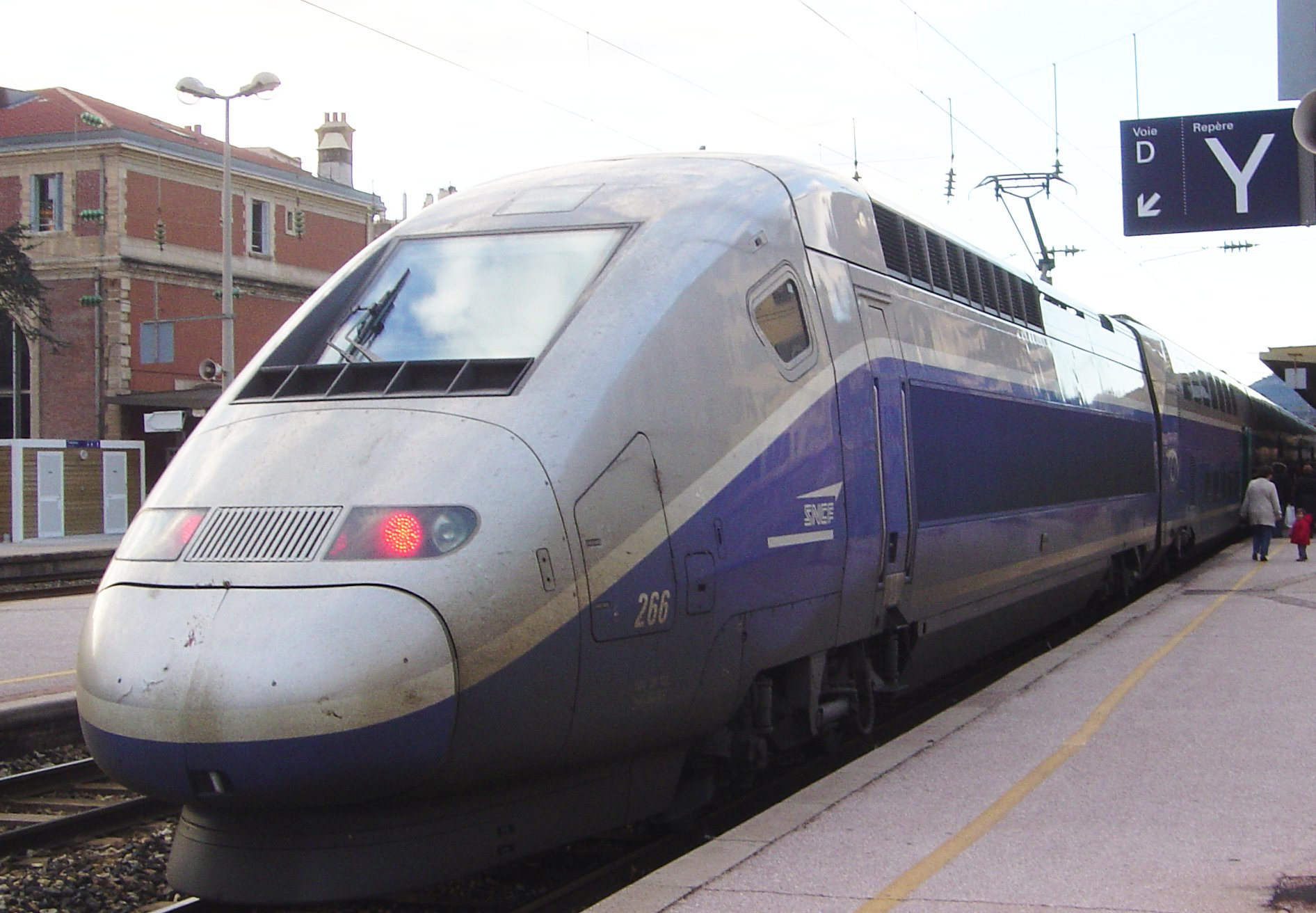 double-decker TGV